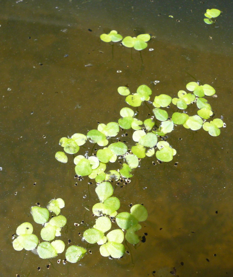 Lemna minor in Olost (Osona, Catalonia)